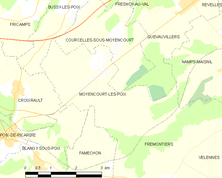 Map of French municipality Moyencourt-lès-Poix